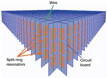 Figure 3 (Long description) Left-handed metamaterial array configuration consisting of copper split-ring resonators and wires mounted on interlocking sheets of fiberglass circuit board. A split-ring resonator consists of an inner square with a split on one side embedded in an outer square with a split on the other side. The split-ring resonators are on the front and right surfaces of the square grid and the single vertical wires are on the back and left surfaces. References: Smith, D.R., et al.: Composite Medium With Simultaneously Negative Permeability and Permittivity. Phys. Rev. Lett., vol. 84, no. 18, 2000, pp. 4184-4187. Shelby, R.A., et al.: Microwave Transmission Through a Two-Dimensional, Isotropic, Left-Handed Metamaterial. Appl. Phys. Lett., vol. 78, no. 4, 2001, pp. 489-491.